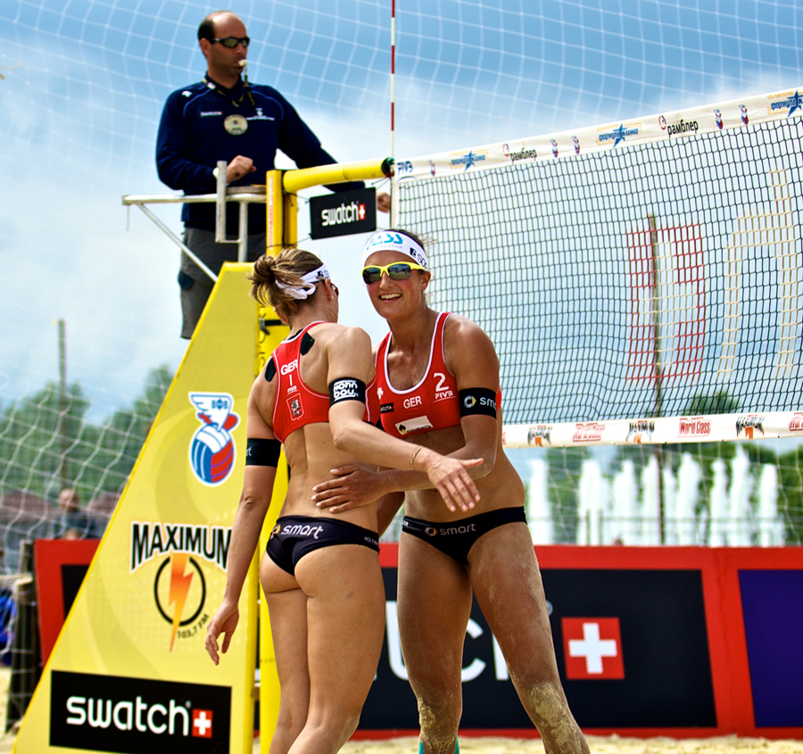 Grand Slam Moscow 2012